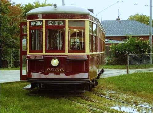 TTC Peter Witt 2766 at the Kipling Loop in Toronto